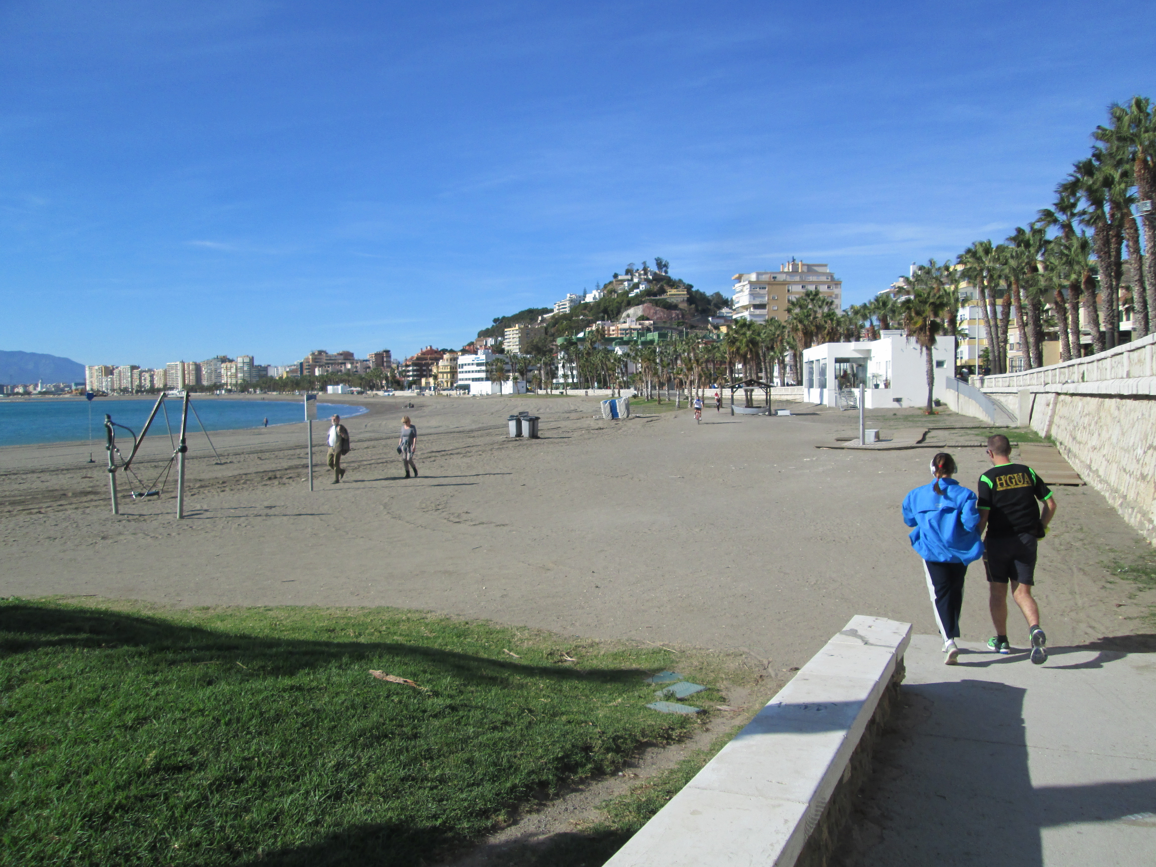 Playa de la Caleta, Málaga